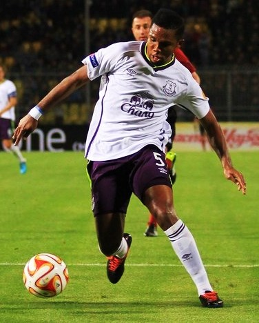 Samuel Eto'o